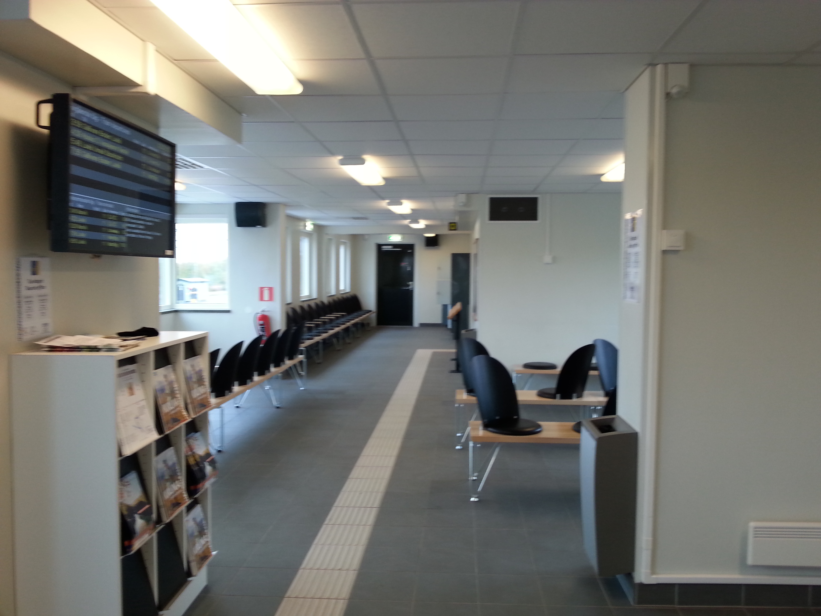 Kiruna station invändigt